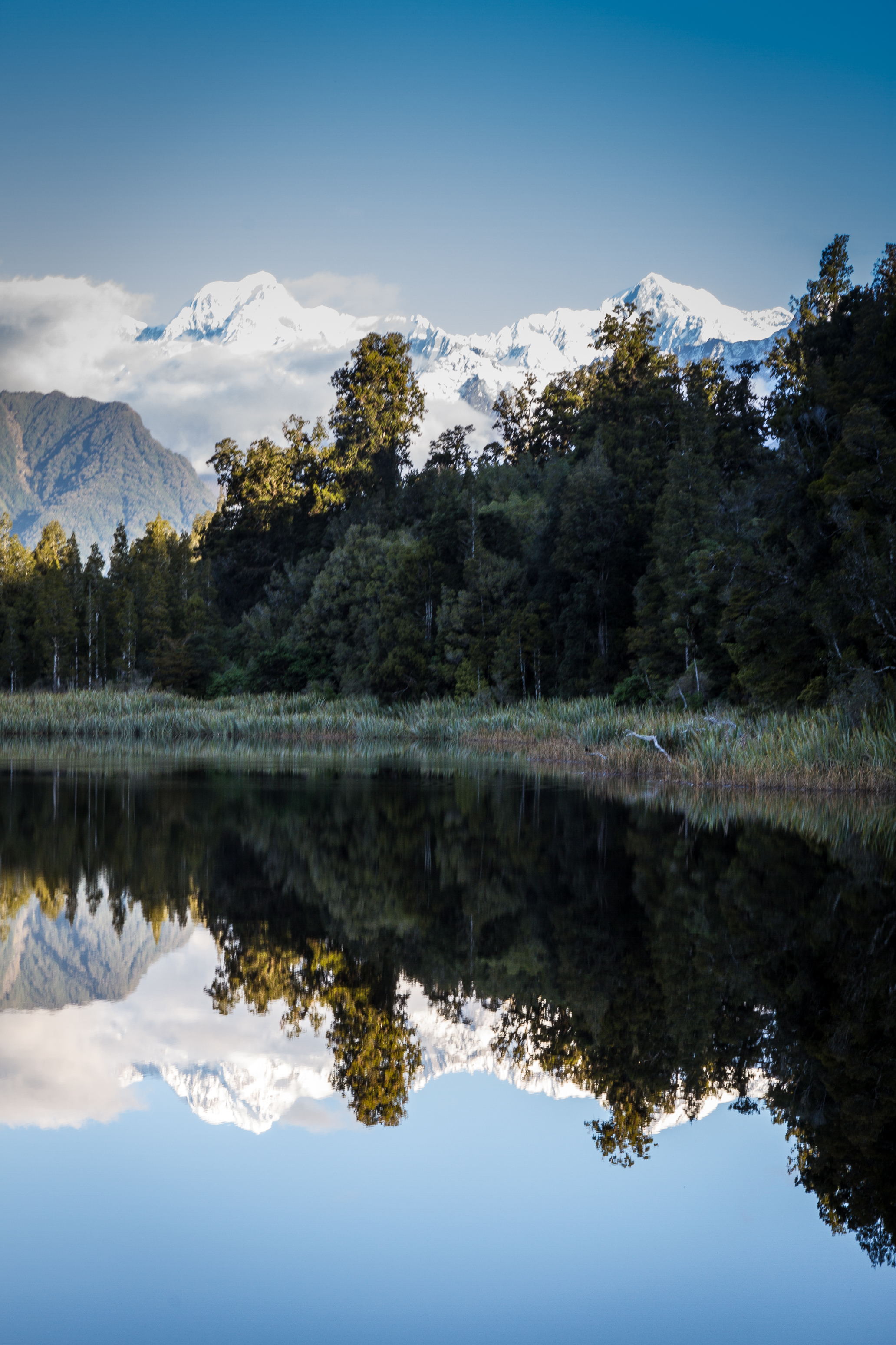 Looking across the lake to the Snow capped mountain on the New Zealand West Coast.